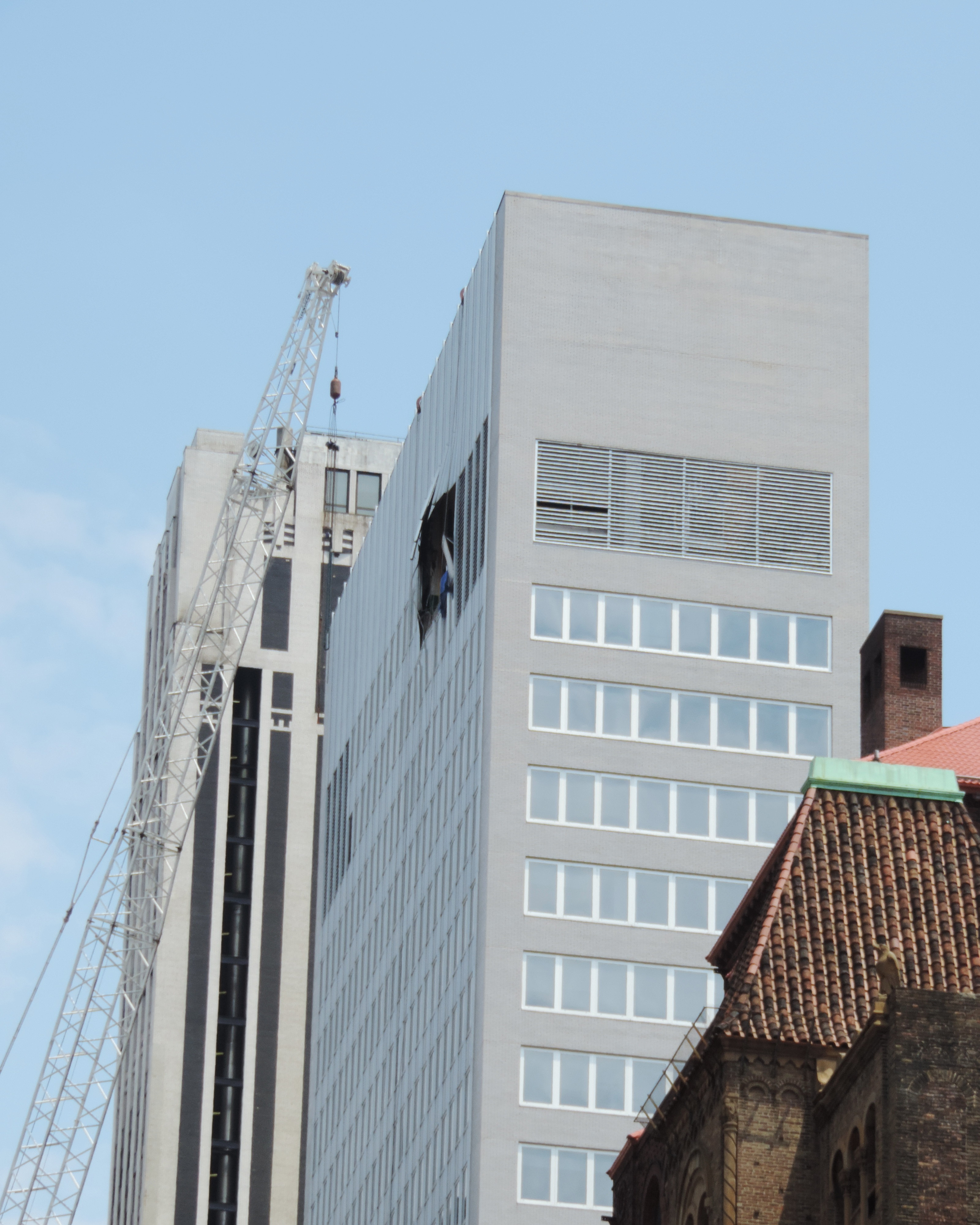 Looking northeast at hole made by dropped air conditioner. From 1953 to 1971 this building was the American Machine and Foundry building.